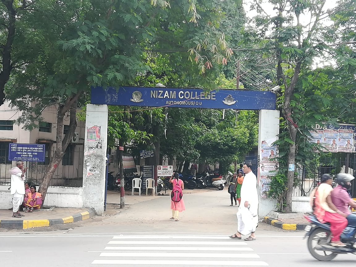 History: The Nizampur University College was originally the "Mirsarai" of Nawab Safdar Jung Musheer-ud-Daulah Fakhrul-ul-Mulk II the owner of the grand Errum Mnzil palace Fakhar ul mulk and Khan-i-Khanan II, who were the son's of Nawab Fakhar-ul-mulk I, a noble of Hyderabad. The founder of the college and of several other educational institutions in the Hyderabad was Syed Hussain (Nawab Imad-ul- Mulk), who did pioneering work in the field of education as the Director of Education. He scouted and then appointed Dr. Aghorenath Chattopadhyay ( father of Sarojini Naidu, Nightingale of India) as the first Principal of the college. The present building, was a summer palace of Paigah Nawab Mulk Fakrul Bahadur, later he gifted the palace to the college administration. Courses of study: The college has undergraduate courses B.B.A., B.Sc., B.A. and . It also has B.C.A. There are 13 postgraduate programs leading to M.A., M.Sc. and degrees. There is a new 5-year integrated M.Sc. course in Chemistry. The college also has M.B.A., M.C.A and M.Sc. (IS) professional courses. In addition there are almost a dozen add-on courses: Certificate, Diploma and PG Diploma courses Wikipedia.